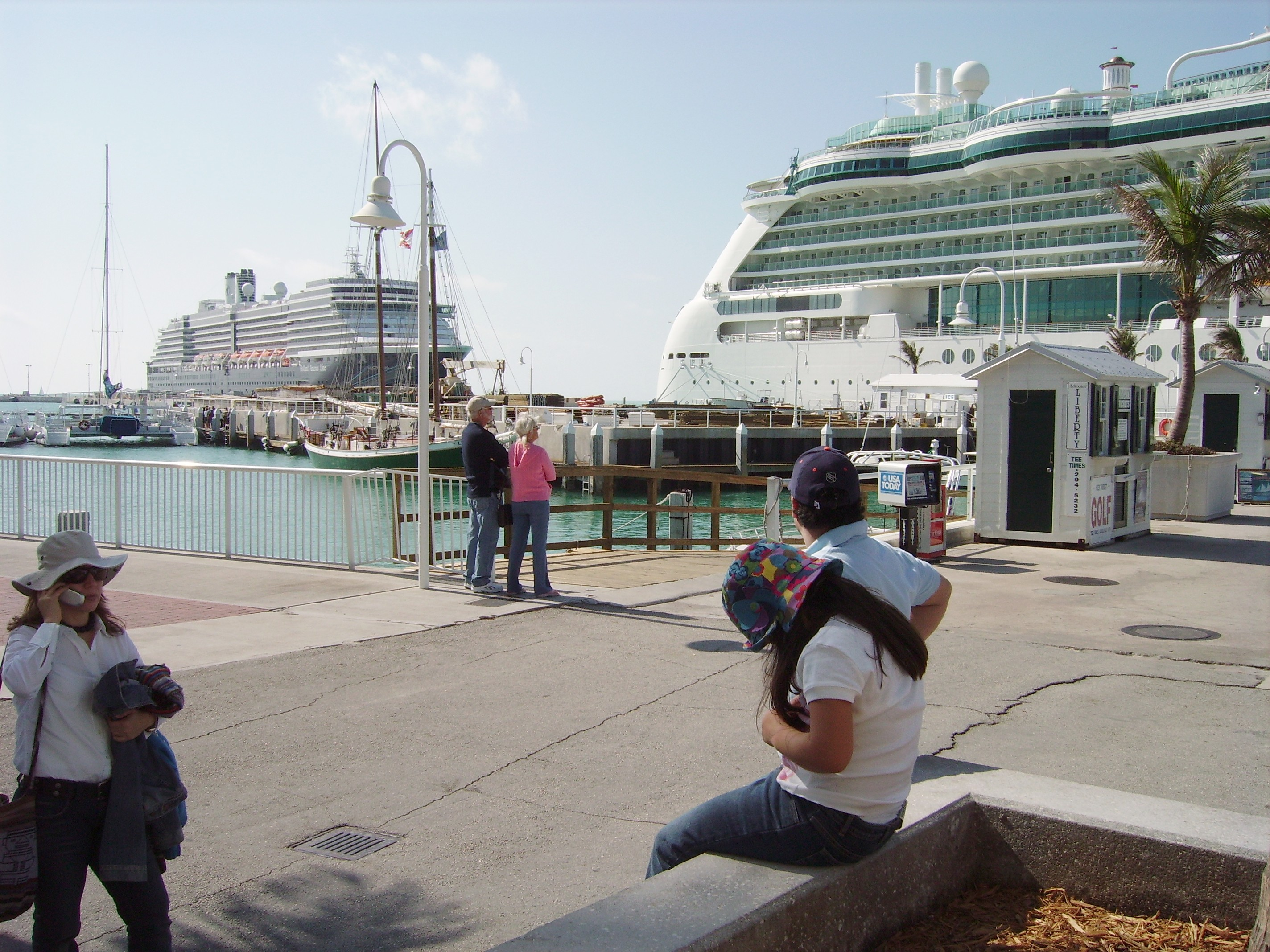 Mole pier in Key West, FL showing two cruise ships in port.